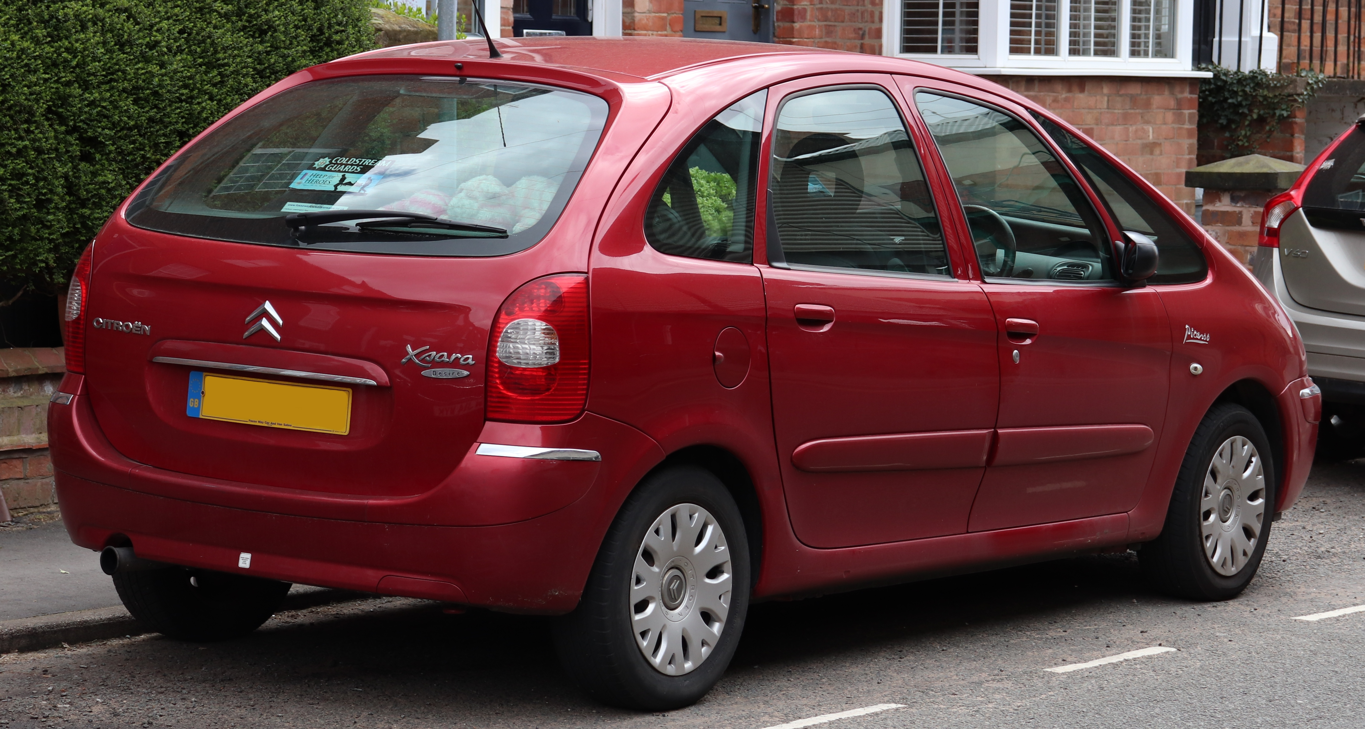 2005 Citroen Xsara Picasso Desire 2HDi facelift 2.0 Rear Taken in Warwick